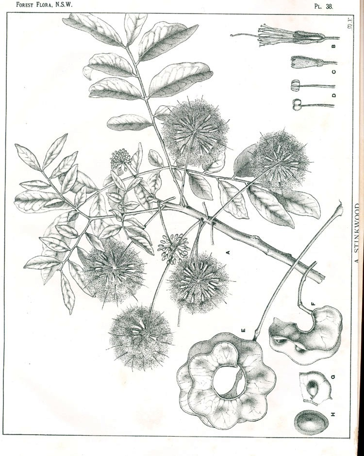 Stinkwood, Albizzia pruinosa F.Muell., Plate 38 from Forest Flora of New South Wales by Joseph Henry Maiden (1859–1925)